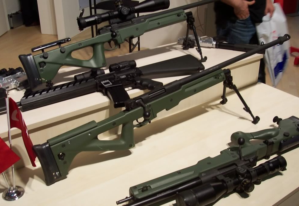 Different versions of the KNT 308 of Kalekalıp, with and without scopes, on display at the IDEF 2009 fair.